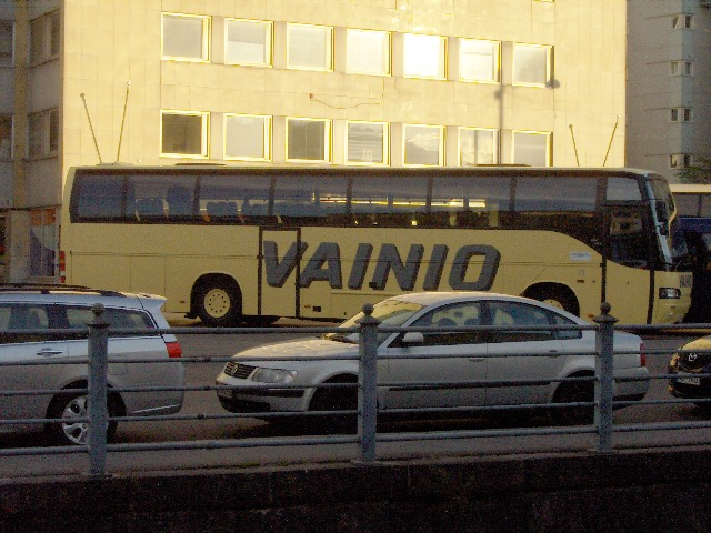 Touristic bus in Kamppi, Finland. Vainion Liikenne no. 77 Volvo B10M / Carrus Star 502